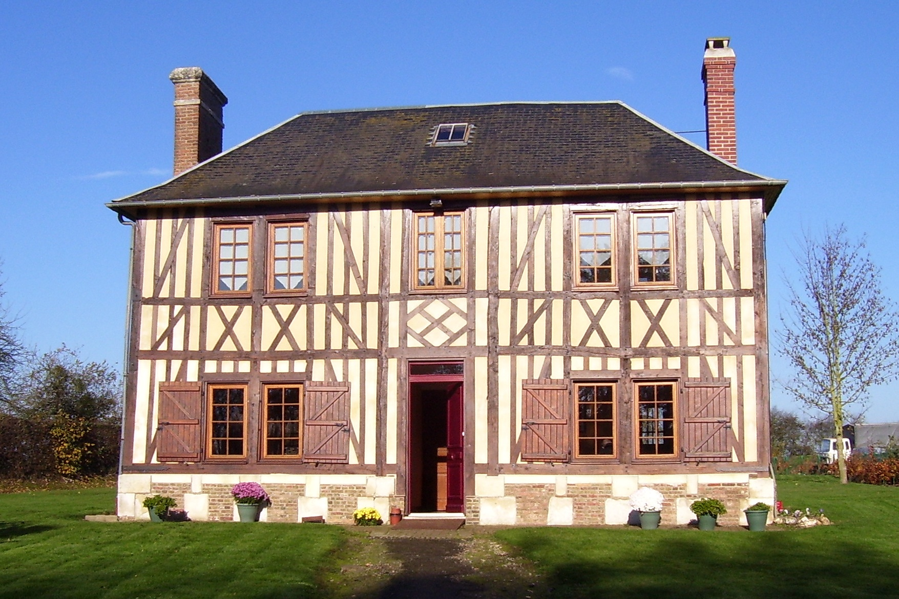 Town hall of Saint-Cyr-de-Salerne in the département Eure in Normandie, France.